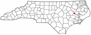 Category:North Carolina Dot Maps